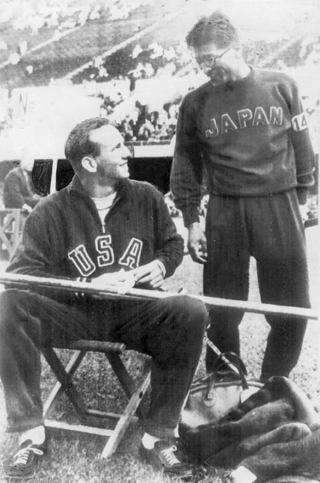 1952 Helsinki Olympic Pole Vault US Don Laz and Japan Bunkich Sawada Press Photo